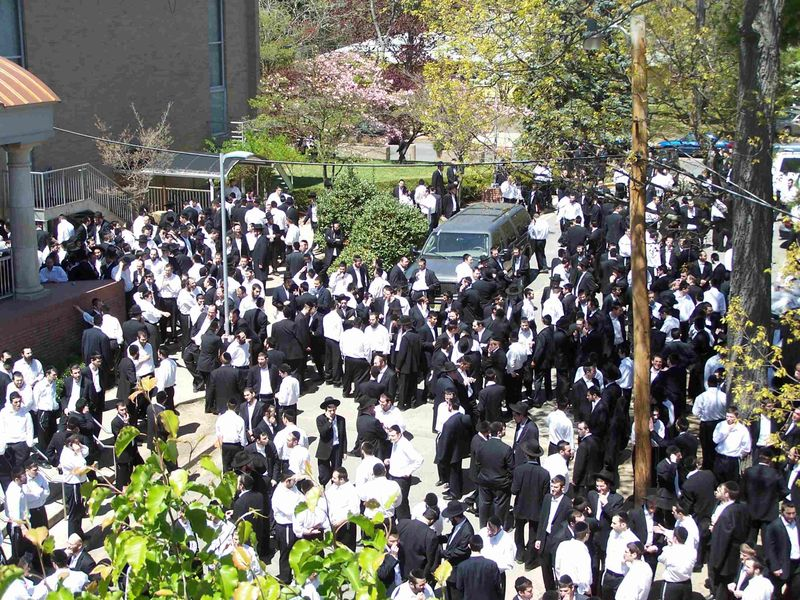 Beth Madrash Govoha Tumelt Day Beth Madrash Govoha Tumelt Day